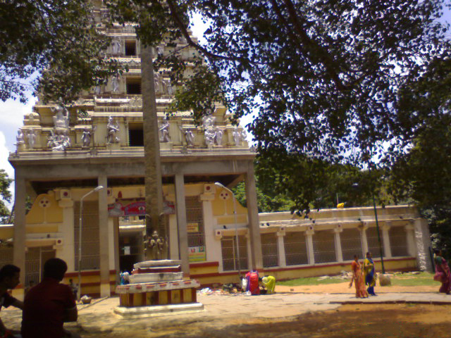 Dodda Ganeshana Gudi, Basavanagudi, Karnataka, India. Taken by Krishnan on Aug 19, 2007 with a Sony Ericsson photo camera